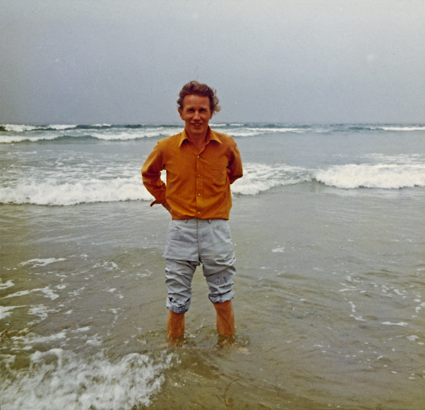 V.V. Järner by the Pacific Ocean, California, USA, in 1973.